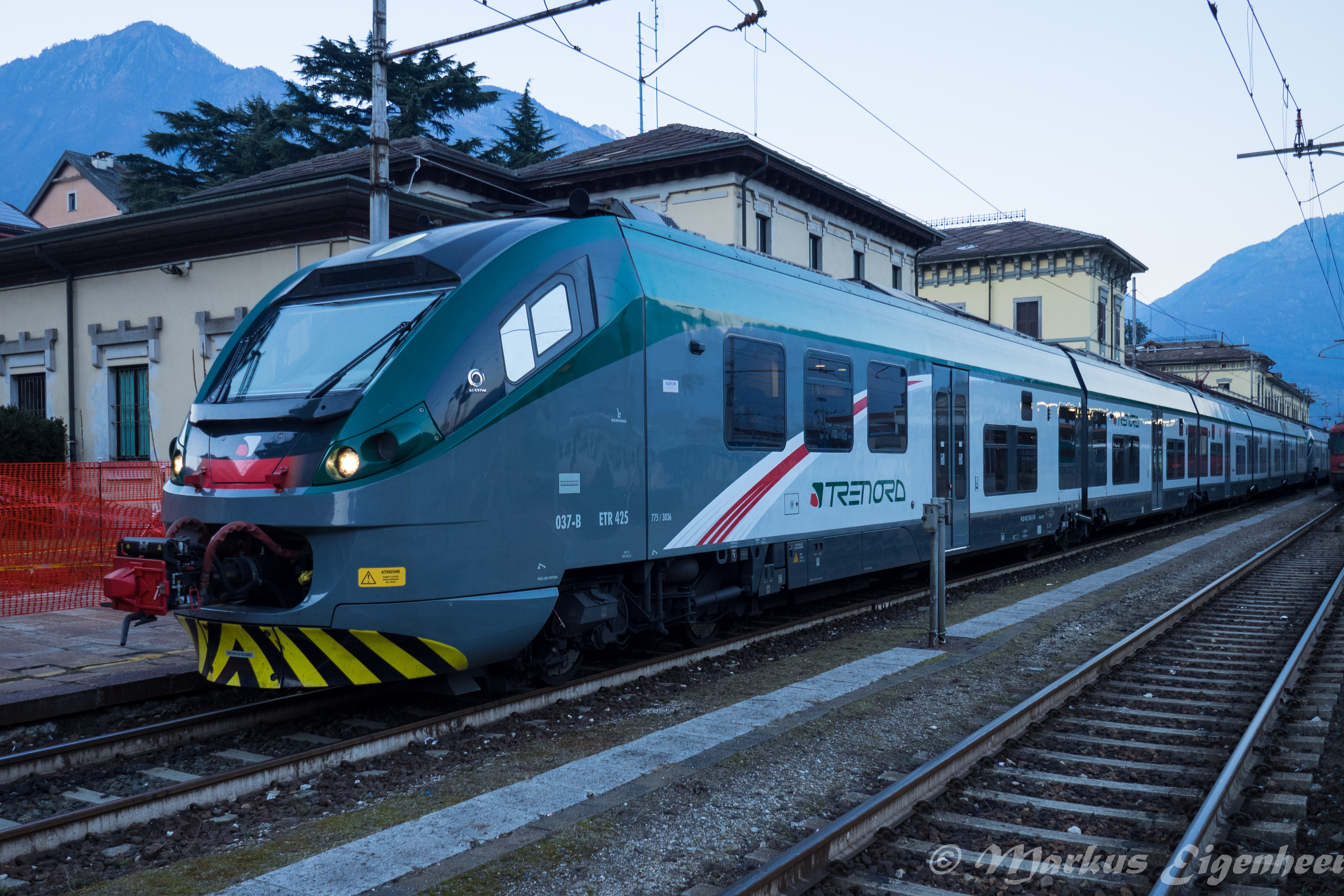 Domodossola 29.01.2016